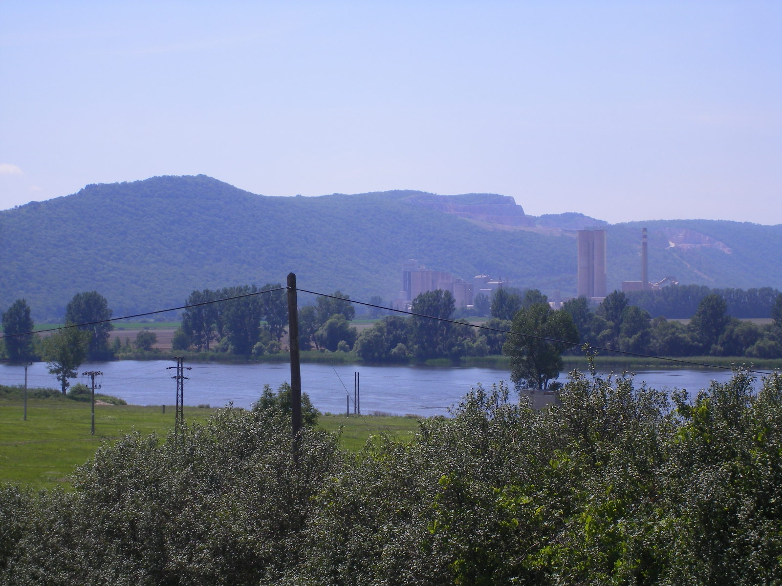 Turňa nad Bodvou - landscape